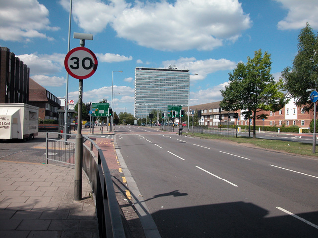 View north along the A240 Kingston Road, Tolworth, Surrey, toward the Tolworth interchange with the A3 road. The tall building i the distance is Tolworth Tower.